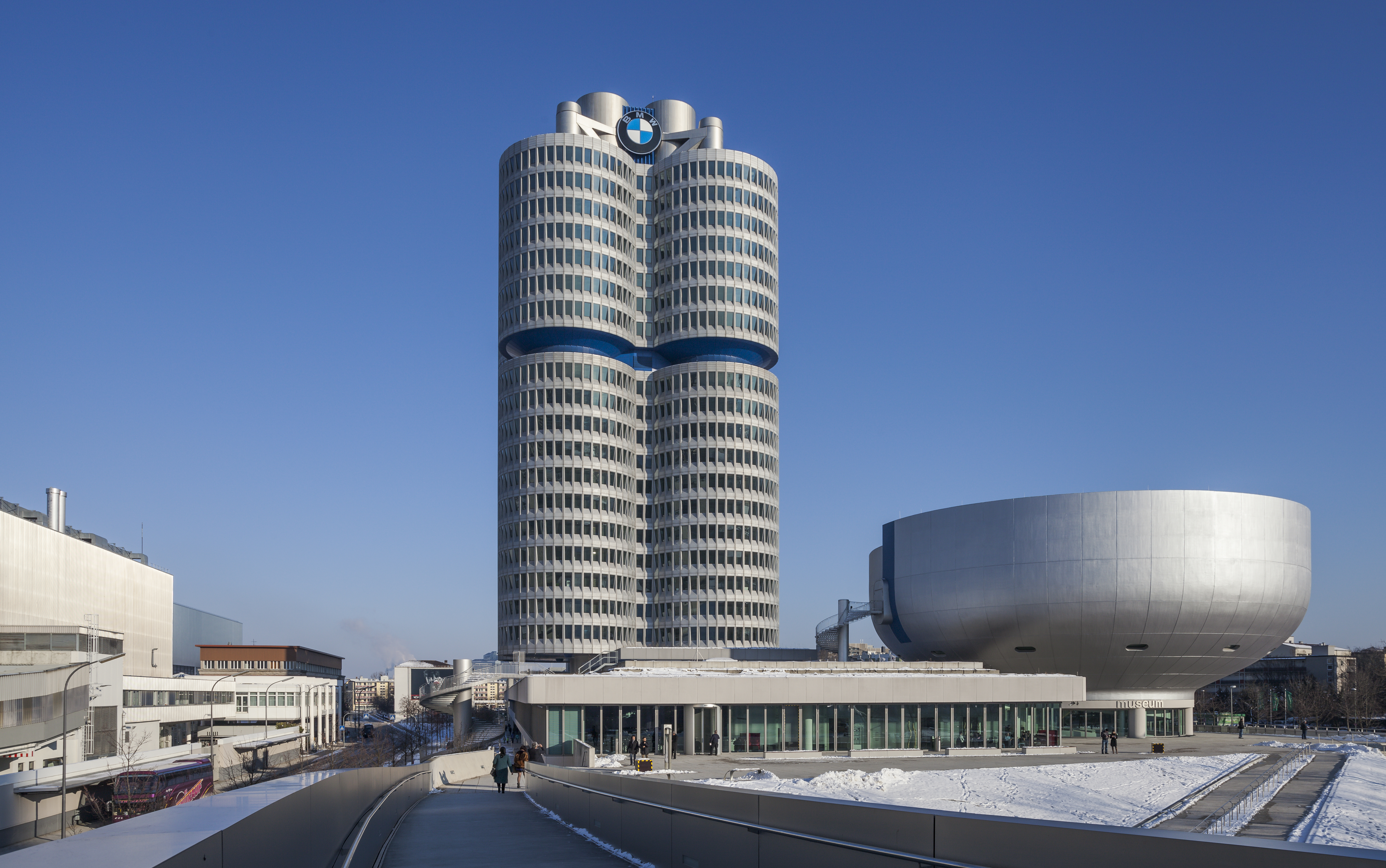 BMW 4 Cylinders, Munich, Germany